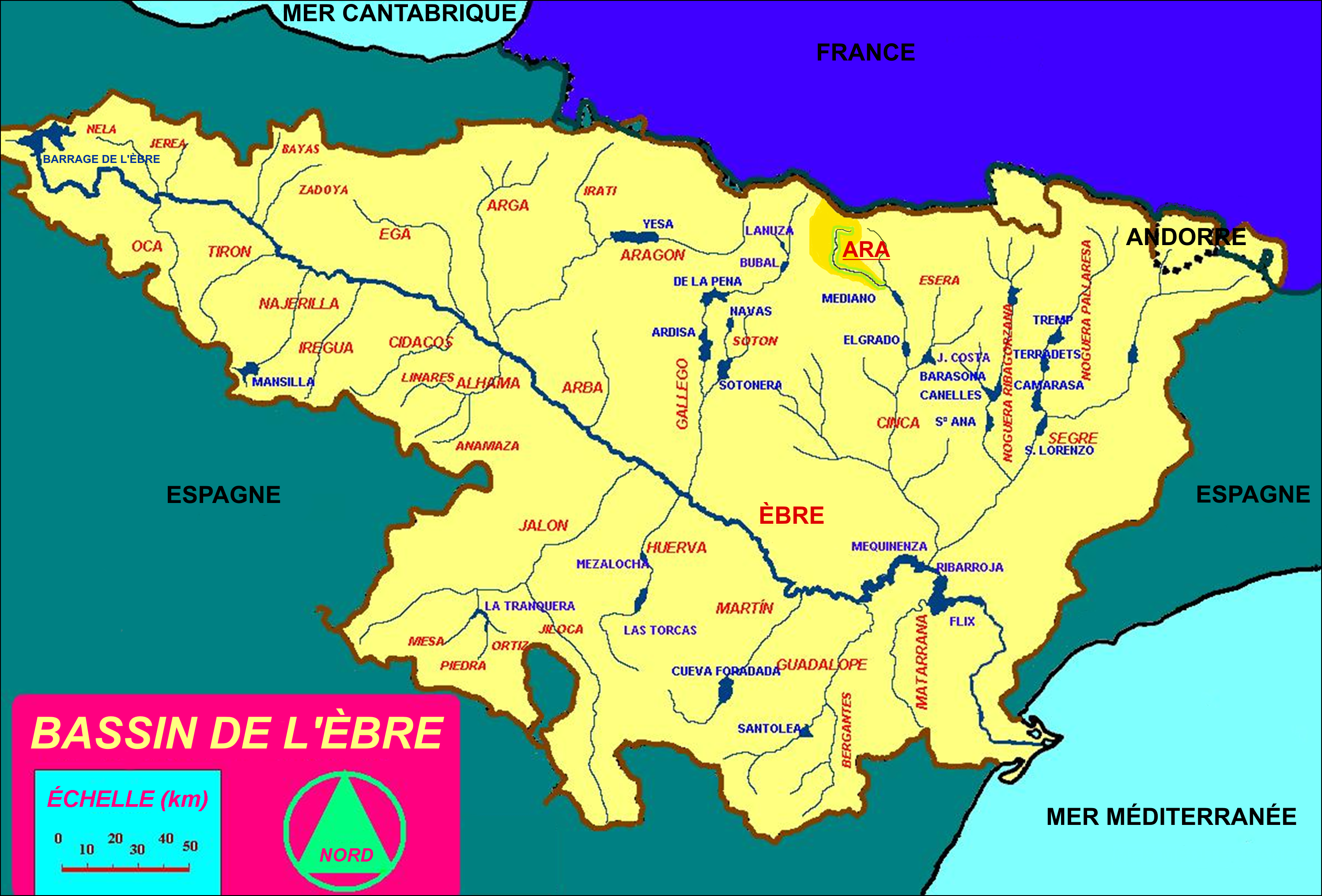 Watershed of the Ara river — in the the Pyrenees region, northeastern Spain.